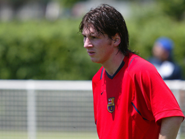 Argentinian Soccer All Star Lionel Messi from Barcelona F.C. Photo By Rafael Amado Deras. Mandatory to include credits and notify author.